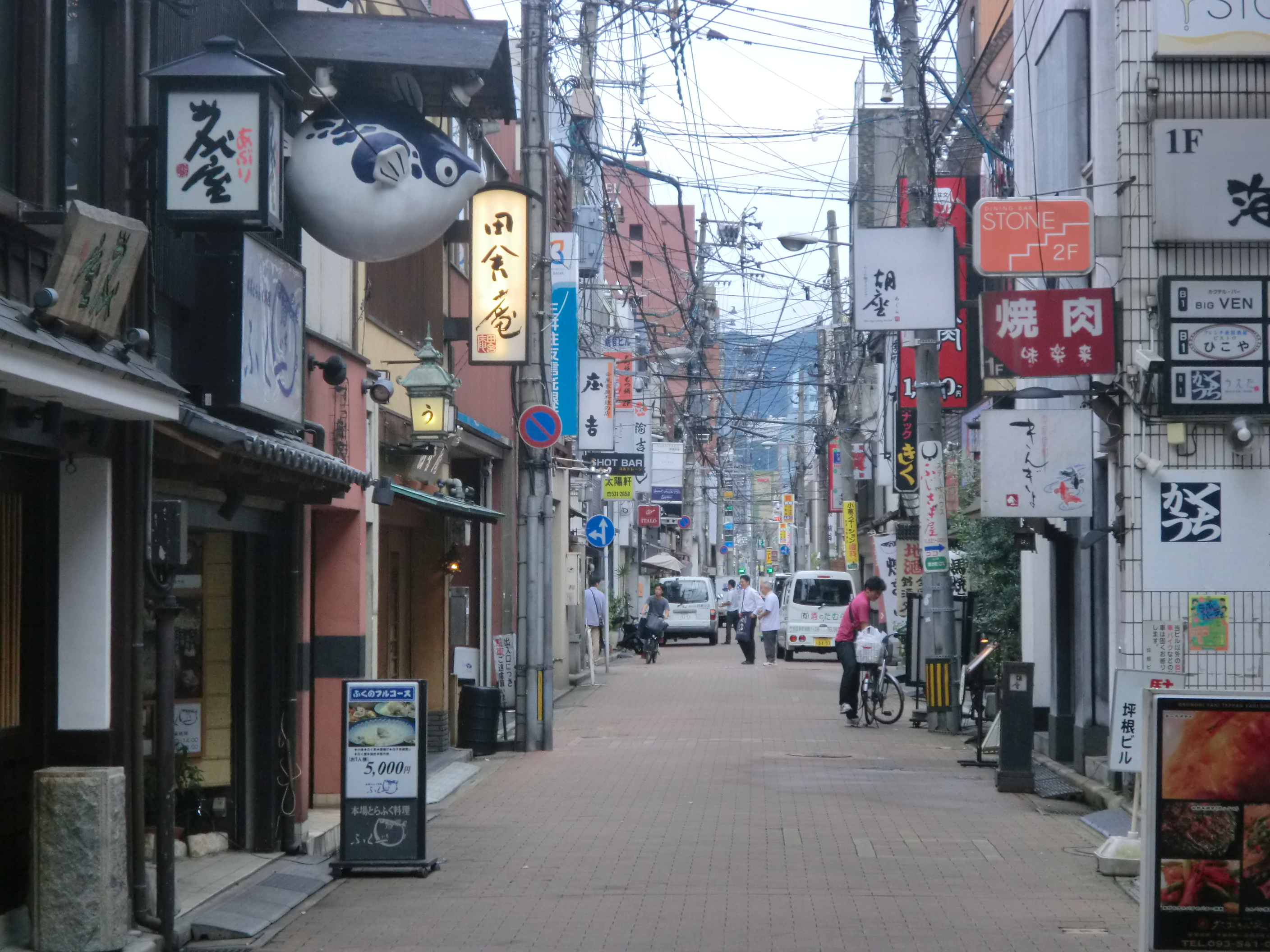 Townscape of Kajimachi area at Kokurakita-ward,Kitakyushu,Fukuoka,Japan.